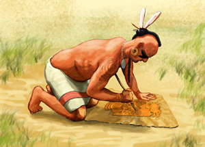 Anthropologist Frank Hamilton Cushing, working in the early 20th century, worked out a method of resting the prepared sheet of copper on a rawhide pad and pressing into the surface using a piece of pointed deer antler and pressing with the chest. This process is considered to be roughly similar to how Mississippian culture coppersmiths at Cahokia probably worked. Illustration by Herb Roe, 2015.